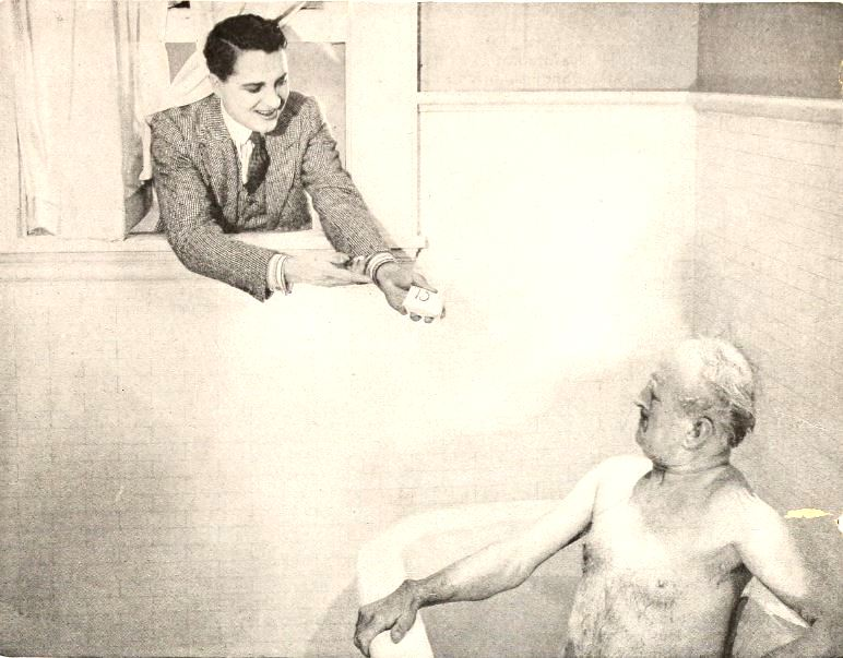 Still from the American silent film It Pays to Advertise (1919) with Bryant Washburn, on page 61 of the December 1919 Shadowland.